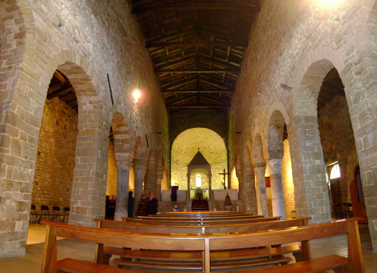 The interior of the church of Santa Maria Assunta, San Leo, province of Rimini, Emilia-Romagna